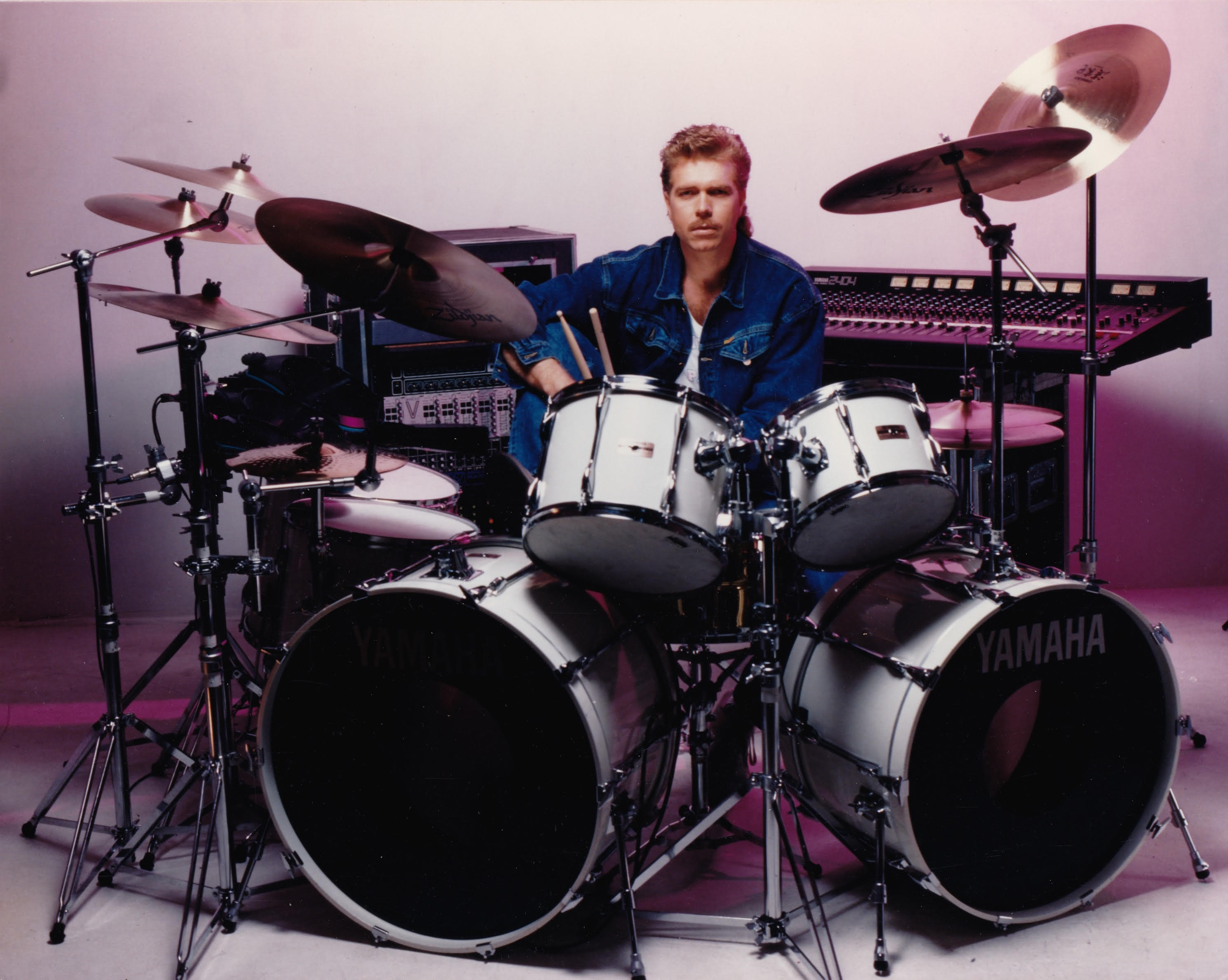 John JR Robinson poses with a Yamaha drum kit in 1985.